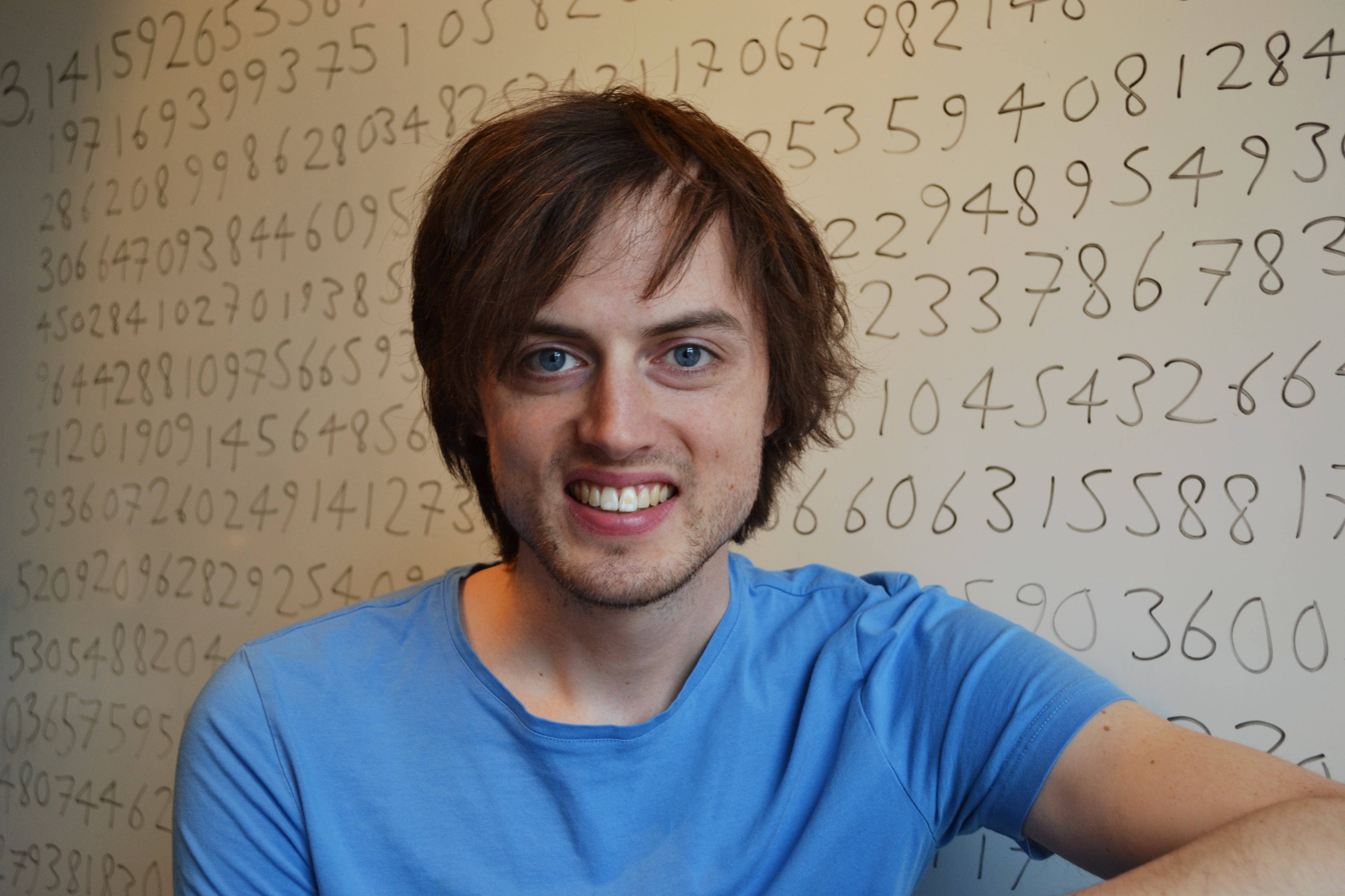 Jonas von Essen with decimals from pi in the background. Taken by me after his new Swedish record 2016.